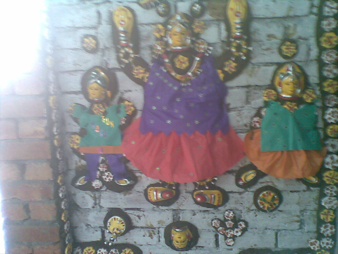 navratri poojan